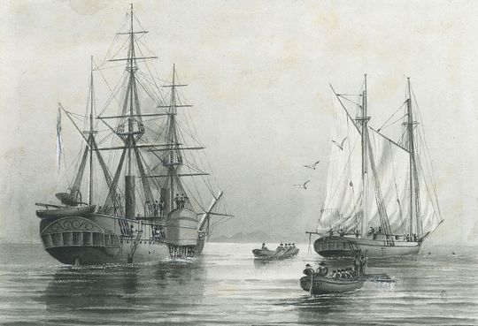 HMS Basilisk Capt John Moresby 1871 on voyage from Brisbane to Cape York, Australia 5th Feby